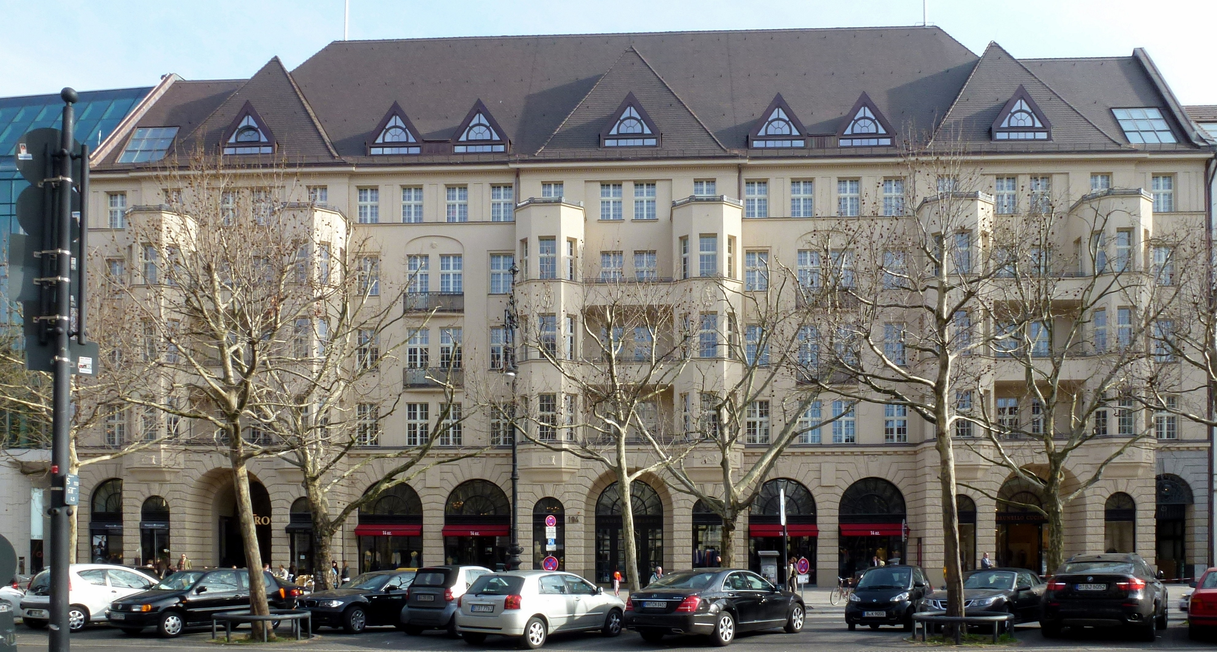 Berlin-Charlottenburg Kurfürstendamm 193–194 Haus Cumberland